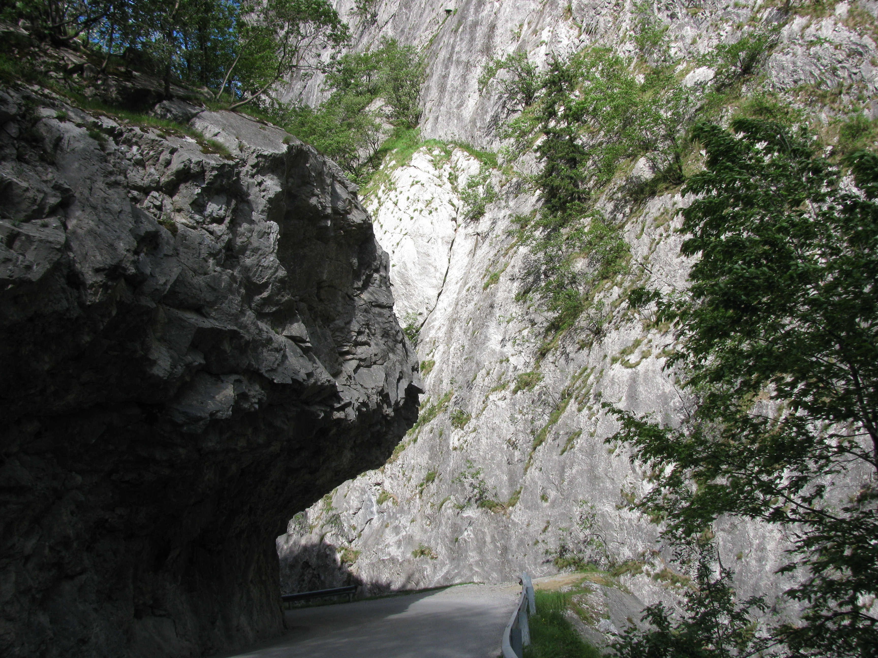 Rugova gorge - Road from Peja to Çakorr